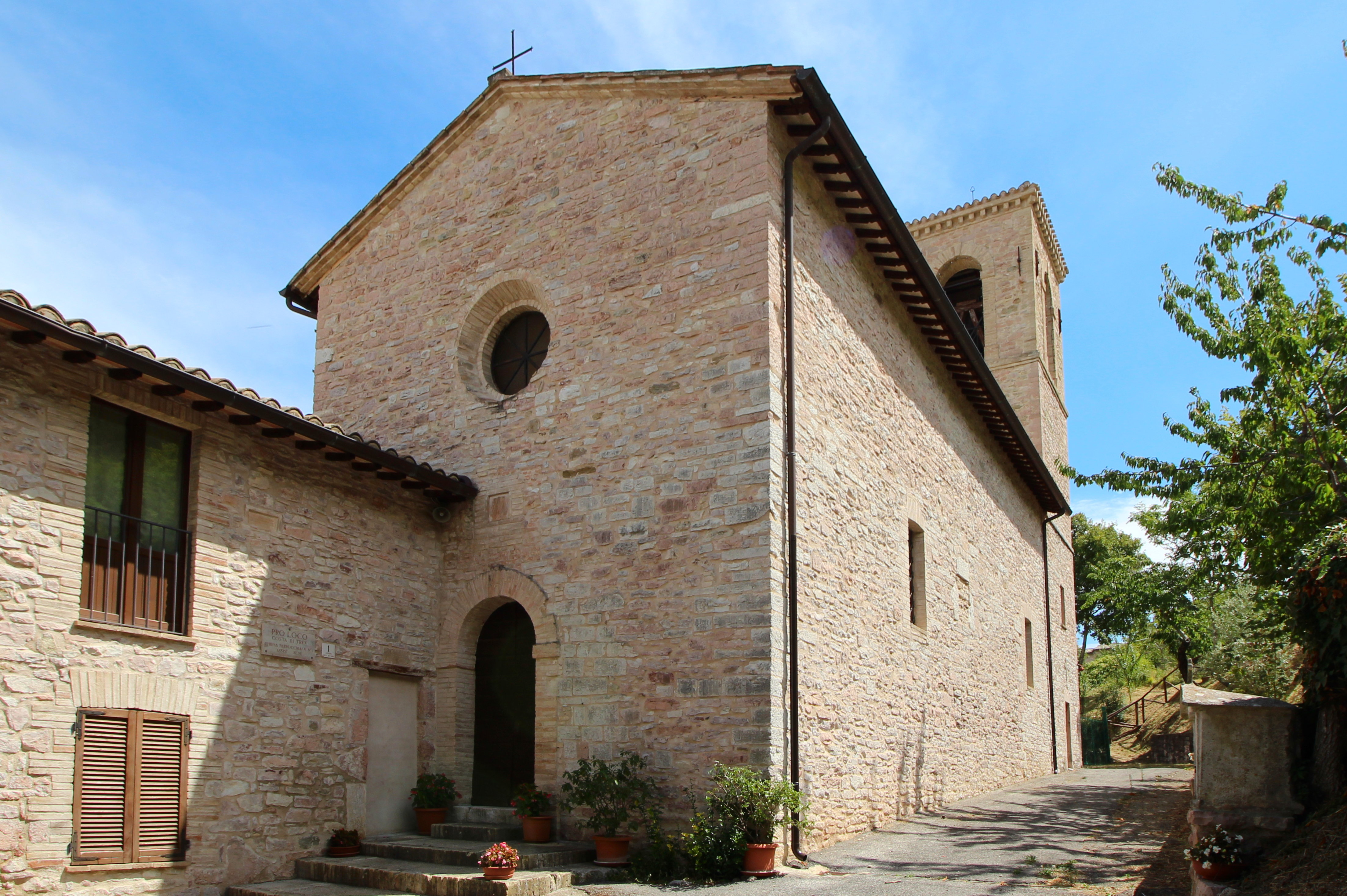 Church Santo Stefano, Costa di Trex, hamlet of Assisi, Province of Perugia, Umbria, Italy